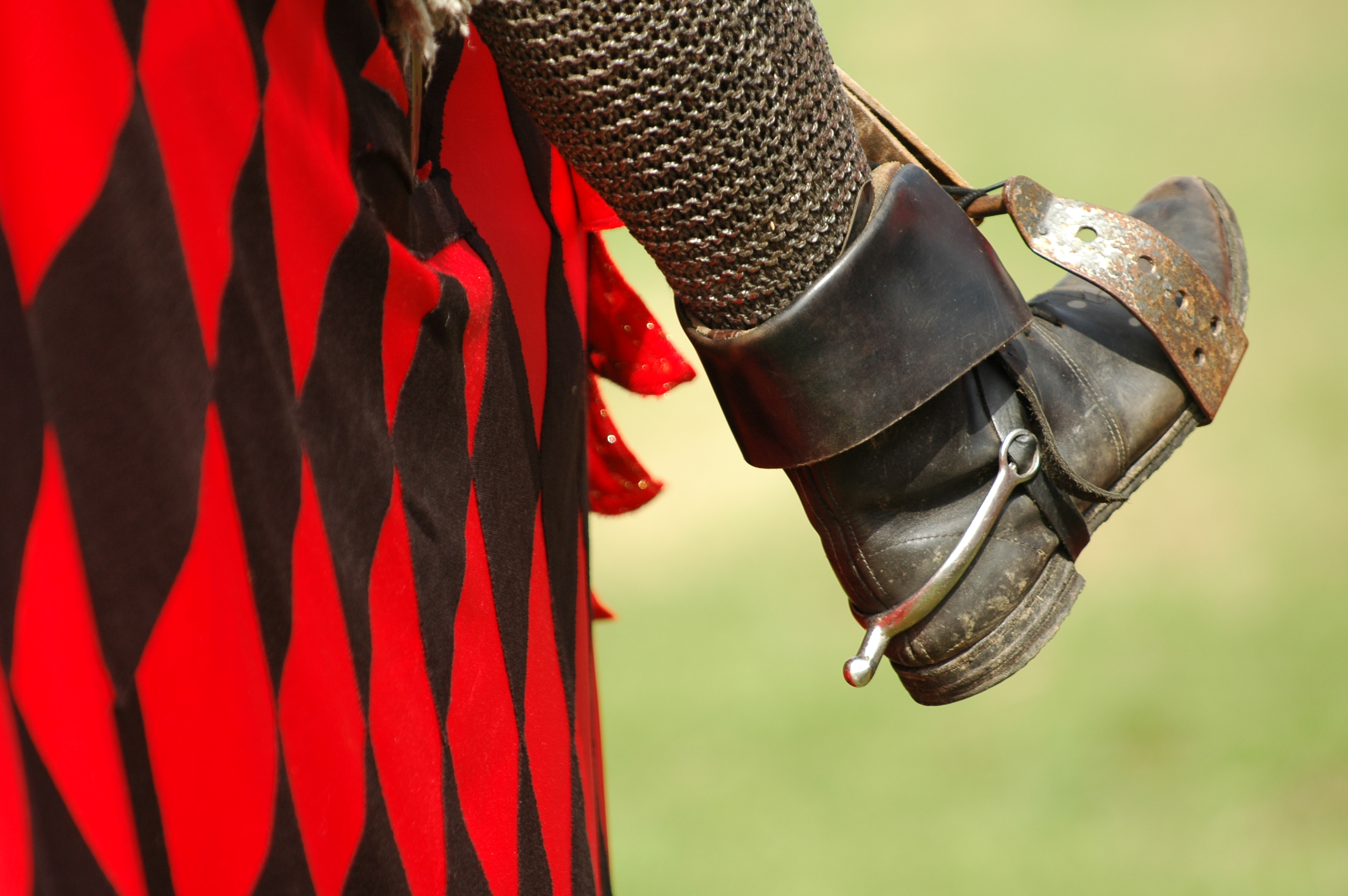 Knight's spur